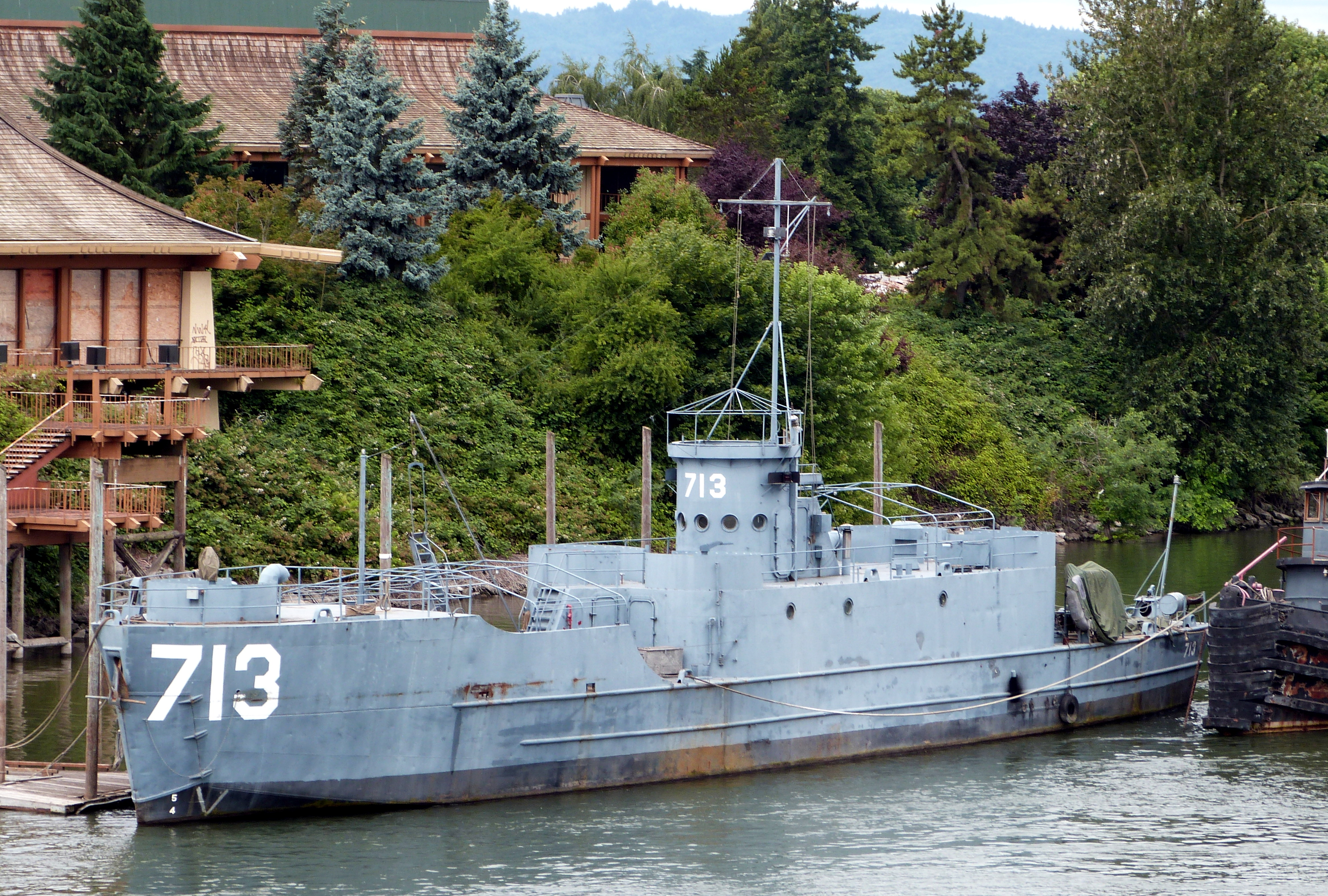 The partially restored USS LCI-713 at its permanent berth on the Columbia River at Hayden Island in Portland, Oregon, United States. The ship has been entered on the US National Register of Historic Places. This photo was taken from the pedestrian walkway on the west span of the Interstate Bridge.